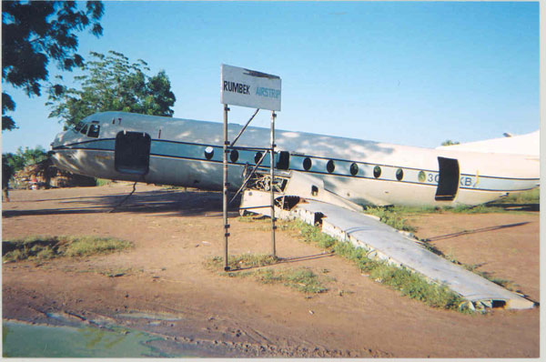 Aircraft beside Rumbek airstrip - South Sudan: A wrecked twin-engine former Royal New Zealand Air Force Andover aircraft at the Rumbek airstrip that suffered catastrophic engine failure after delivering relief supplies.